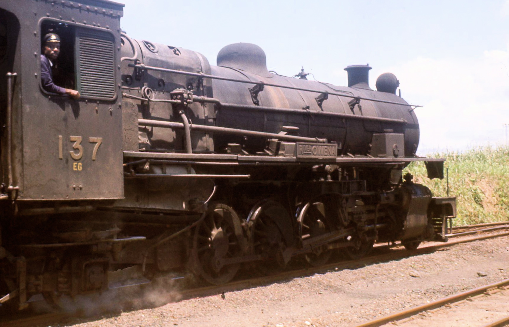 No. 137 "River Owena" near Port Hatcourt